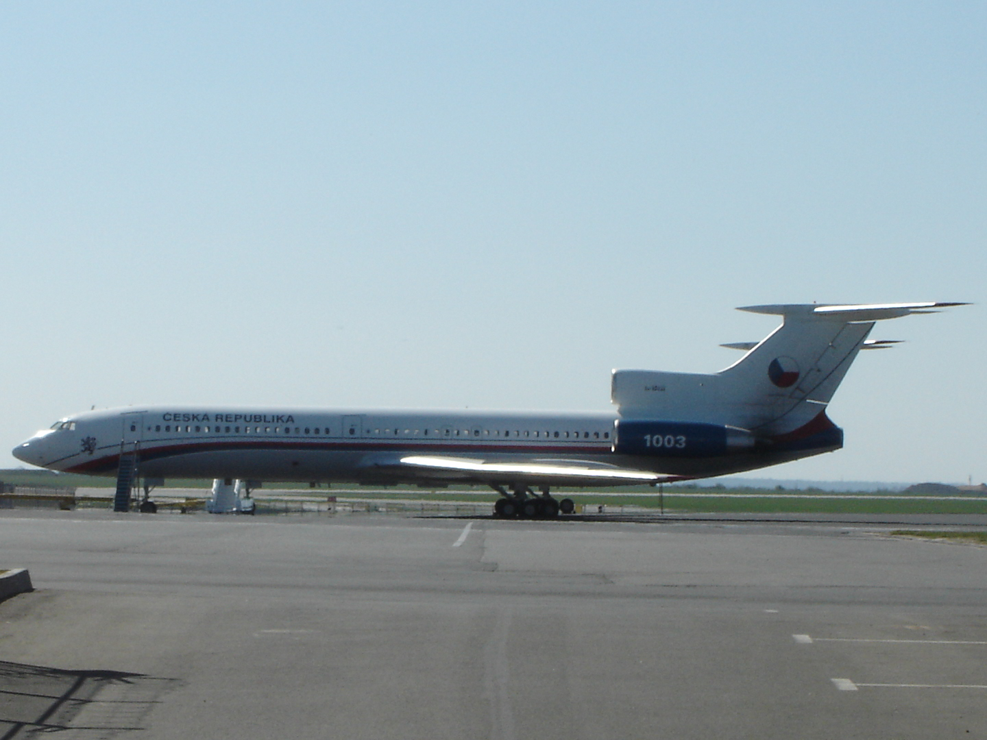 Government Tupolev Tu-154 of the Czech Republic on the Prague-Ruzyně airport